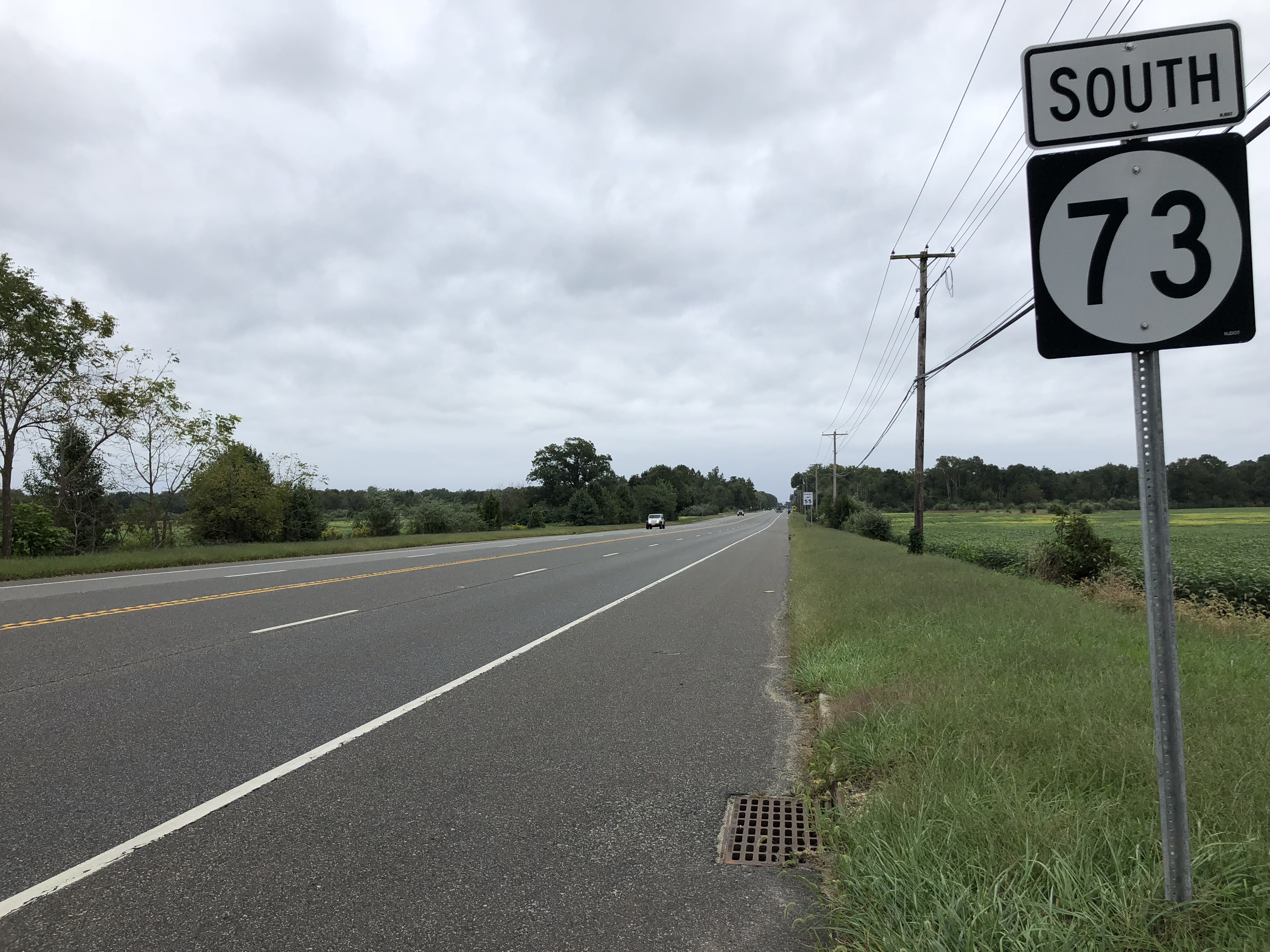 View south along New Jersey State Route 73 and Camden County Route 561 Spur (Mays Landing Road) just south of Charter Avenue in Winslow Township, Camden County, New Jersey